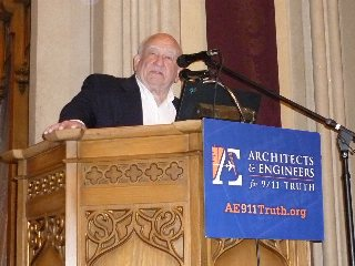 Ed Asner introducing Richard Gage at AE911 Event in Los Angeles, California